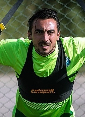 Mehdi Rahmati